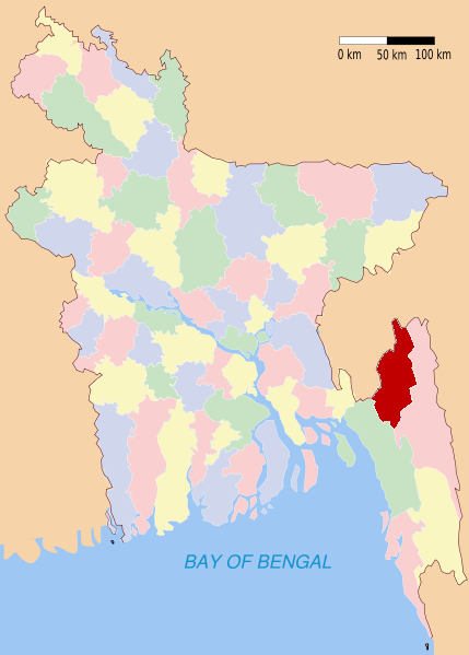 District locator map in red in Bangladesh